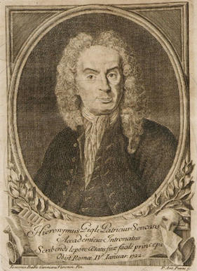 Portrait of Girolamo Gigli (1660-1722)